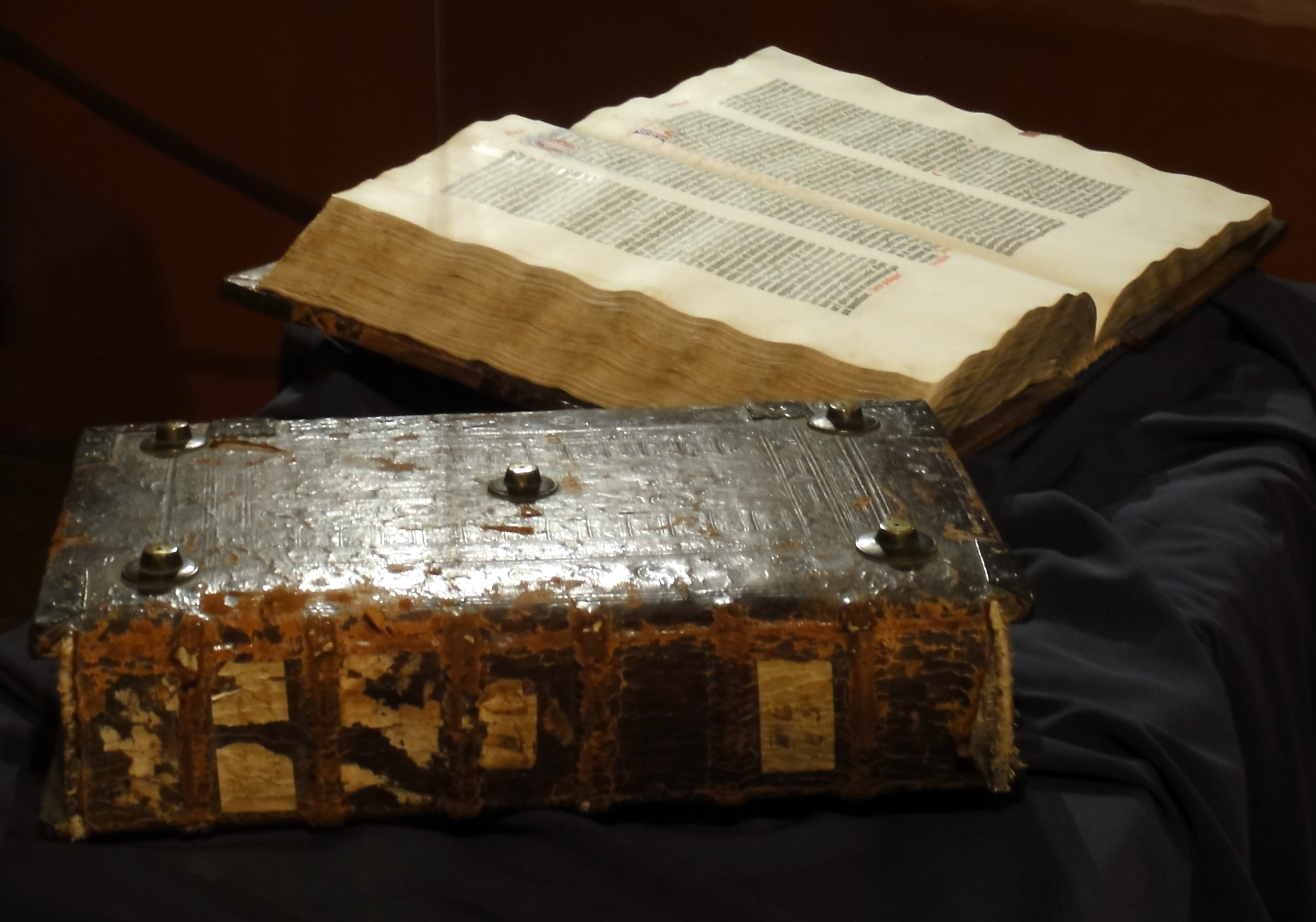 Gutenberg Bible (Pelplin copy), volumes 1 (open) and 2 (closed) Pelplin Diocesan Museum, Pelplin, Poland